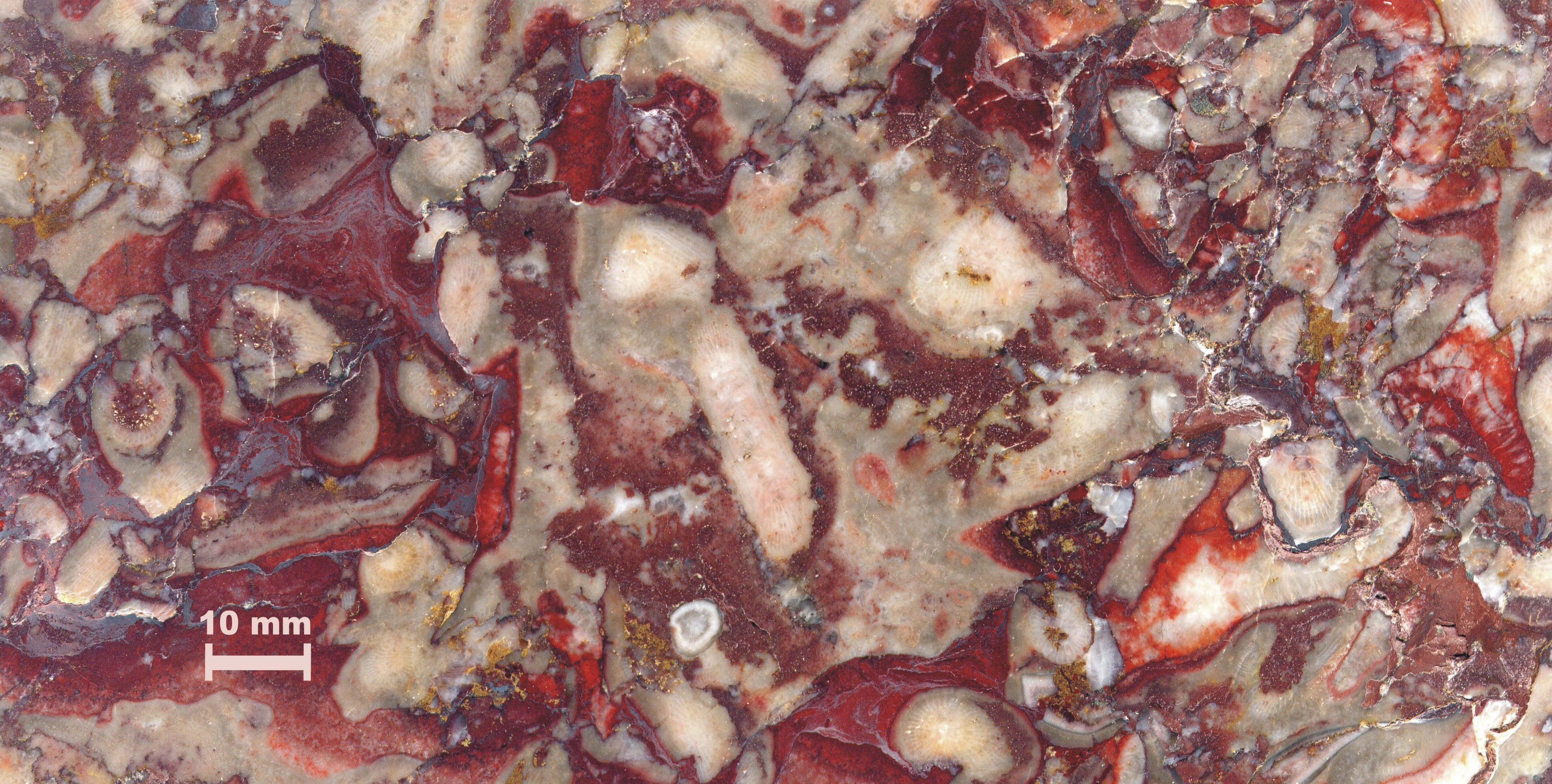 reef limestone of Lahn Syncline, cementation with haematite